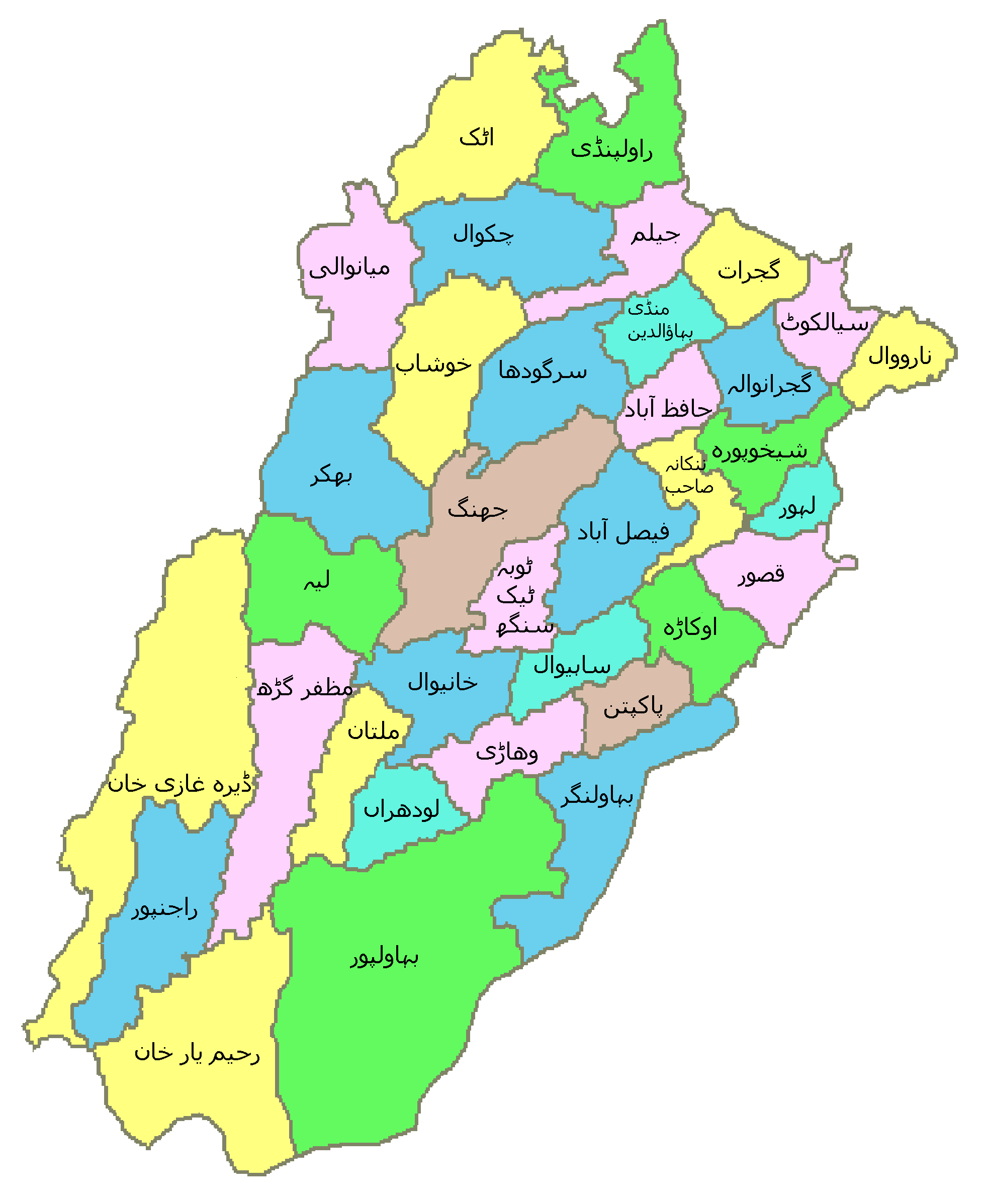 The districts of Province Punjab, Pakistan.